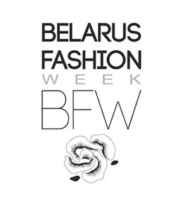 Belarus Fashion Week Logo